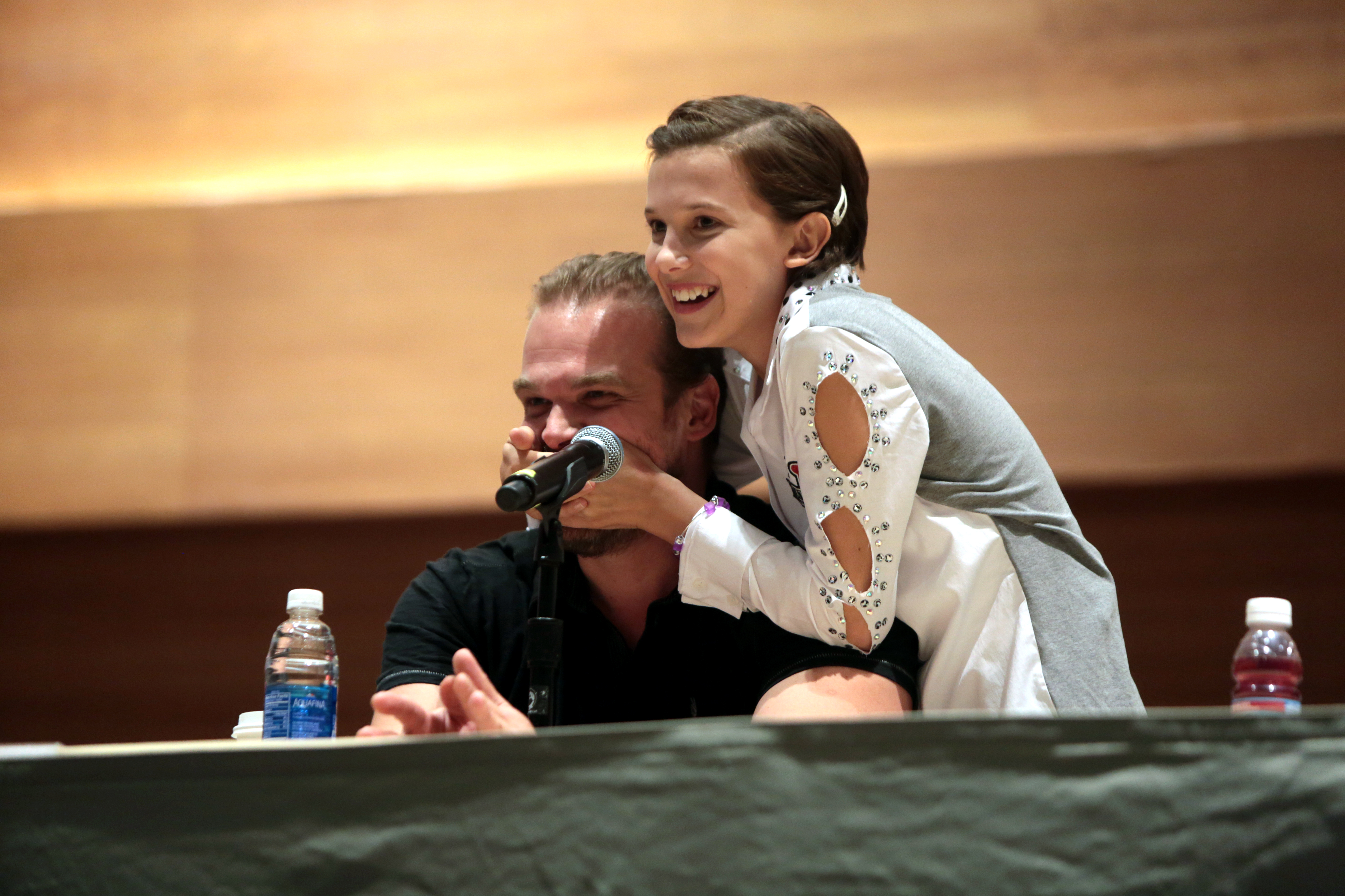 David Harbour and Millie Bobby Brown speaking at the 2016 Phoenix Comicon Fan Fest at the Phoenix Convention Center in Phoenix, Arizona.